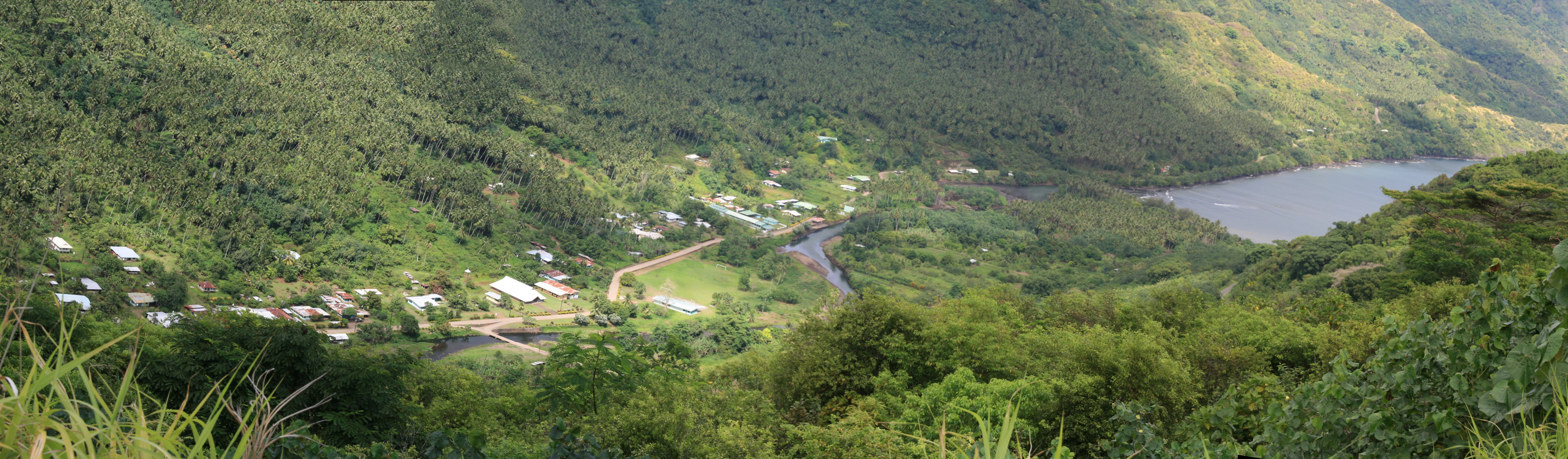 View of Taipivai village and the Baie du Contrôleur, in Nuku-Hiva, Marquesas Island, French Polynesia.